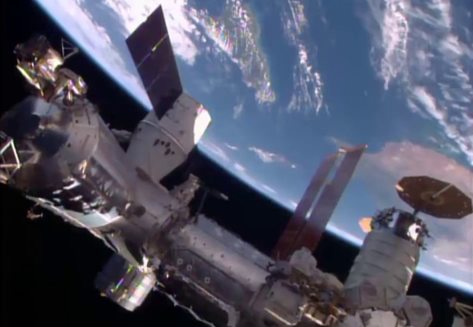 SpaceX CRS-8 and Cygnus CRS OA-6 docked to the International Space Station on April 10, 2016. This is the first time both a Dragon and a Cygnus were docked at the same time to the ISS. At this time, Dragon was docked to the Harmony nadir port, while Cygnus was docked to the Unity nadir port.